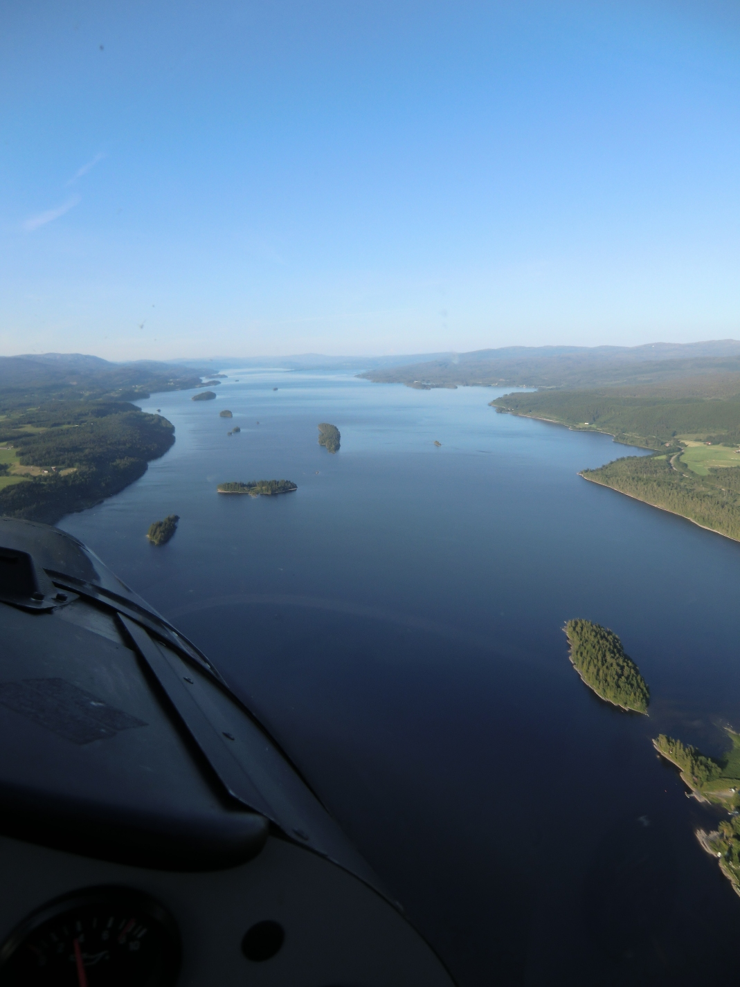 Nordover Snåsavatnet